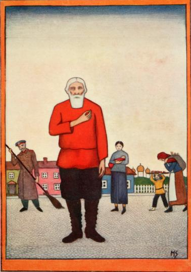 Tolstoy illustration